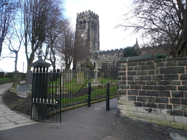 St Lawrence Church Entrance Gate and Footpath Footpath leads to the Blue Bell Inn car park.